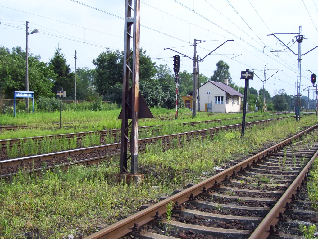 Lodz Lublinek train station